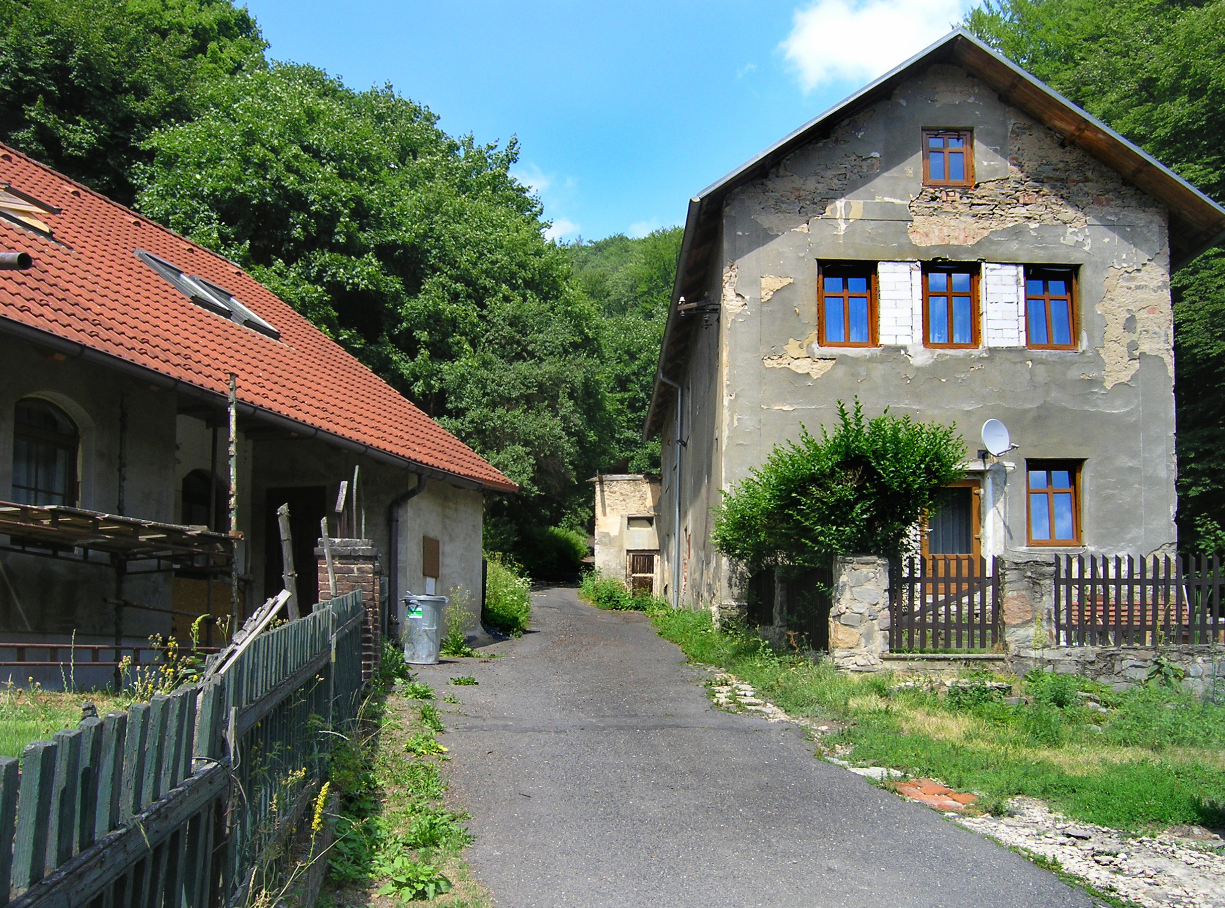 Hrad Osek village, part of Osek town, Czech Republic